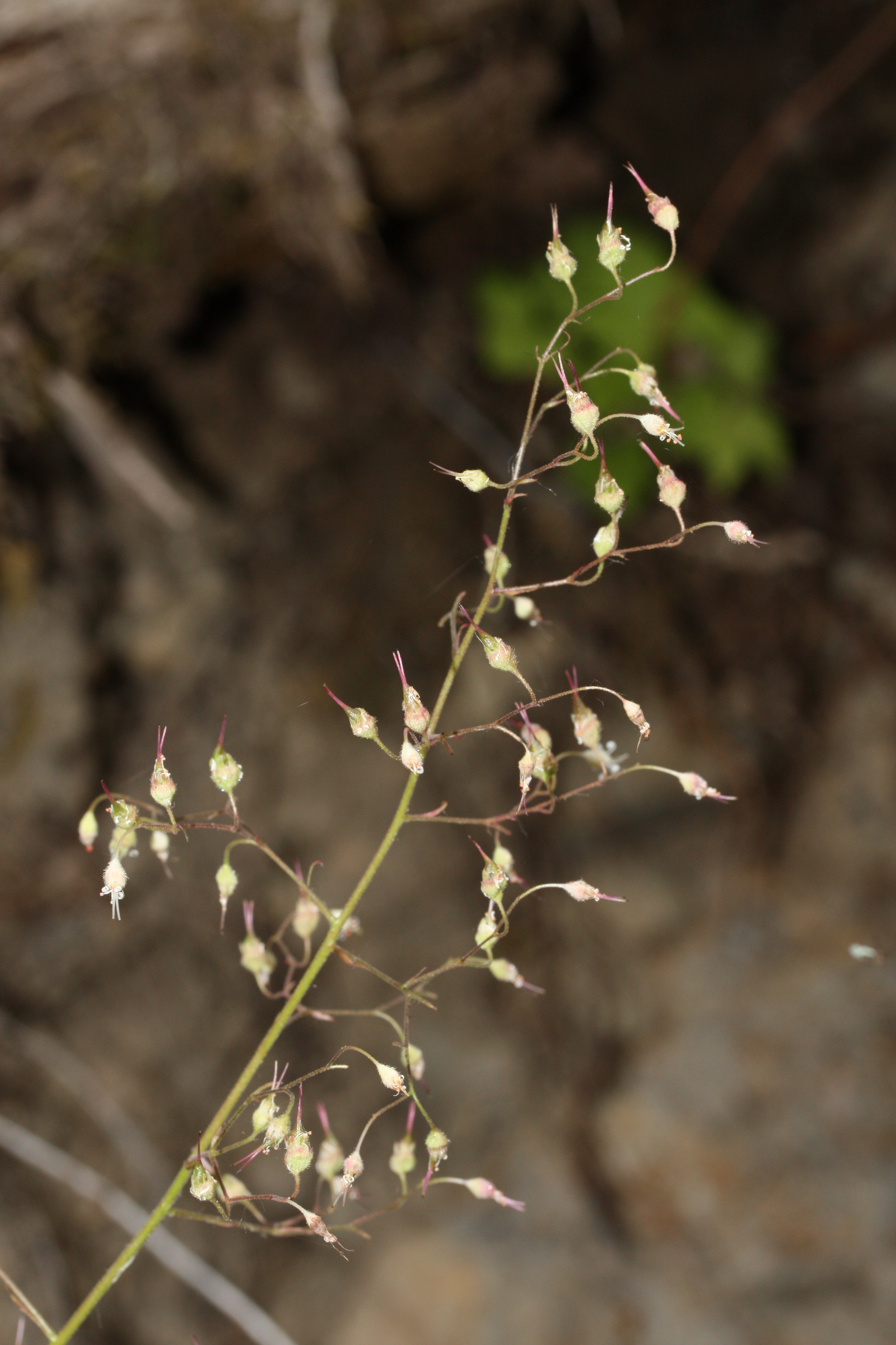 Smallflower Alumroot